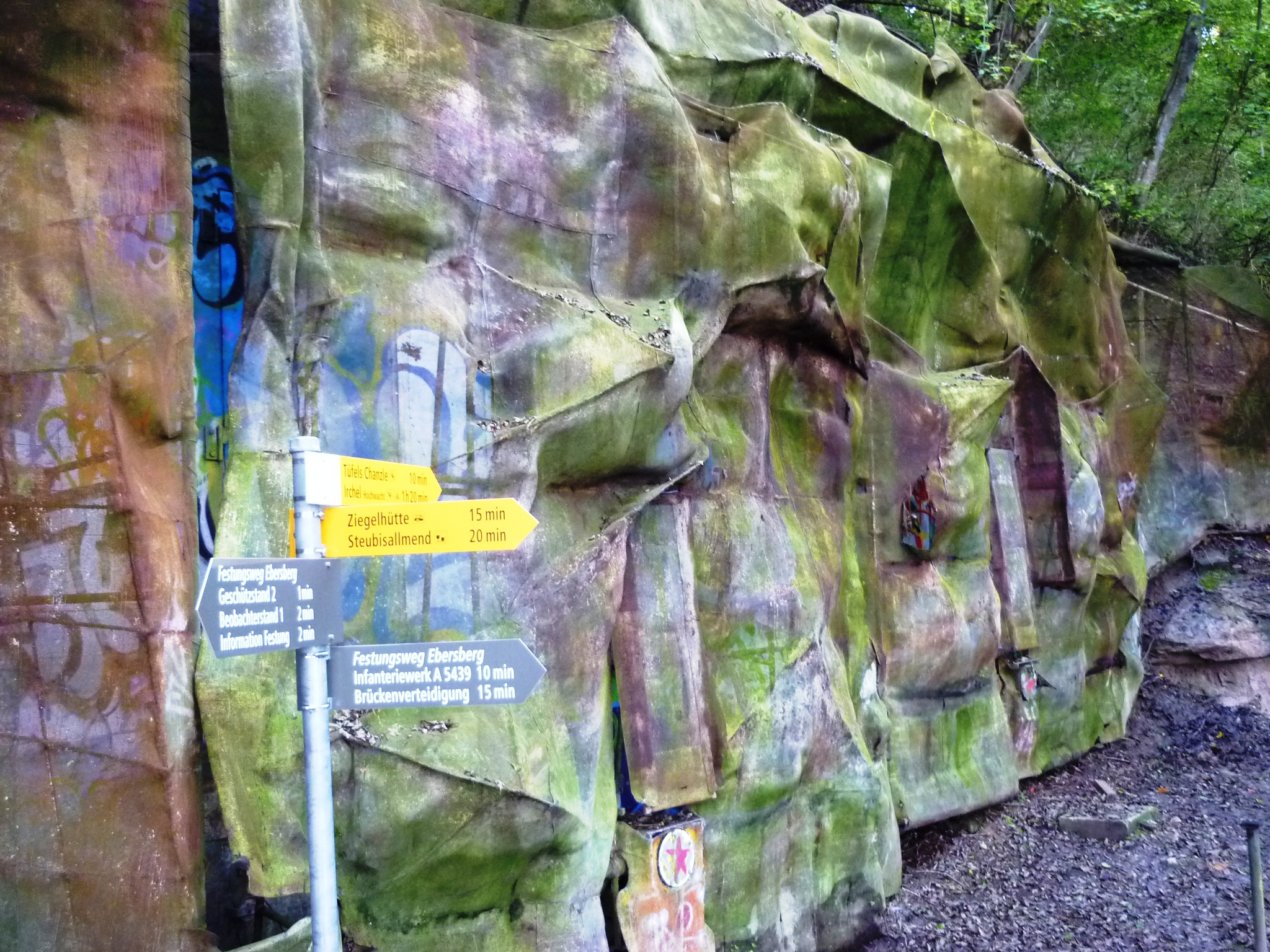 Artillery bunker, Ebersberg, Switzerland